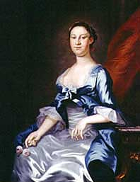 painting of Betty Washington Lewis